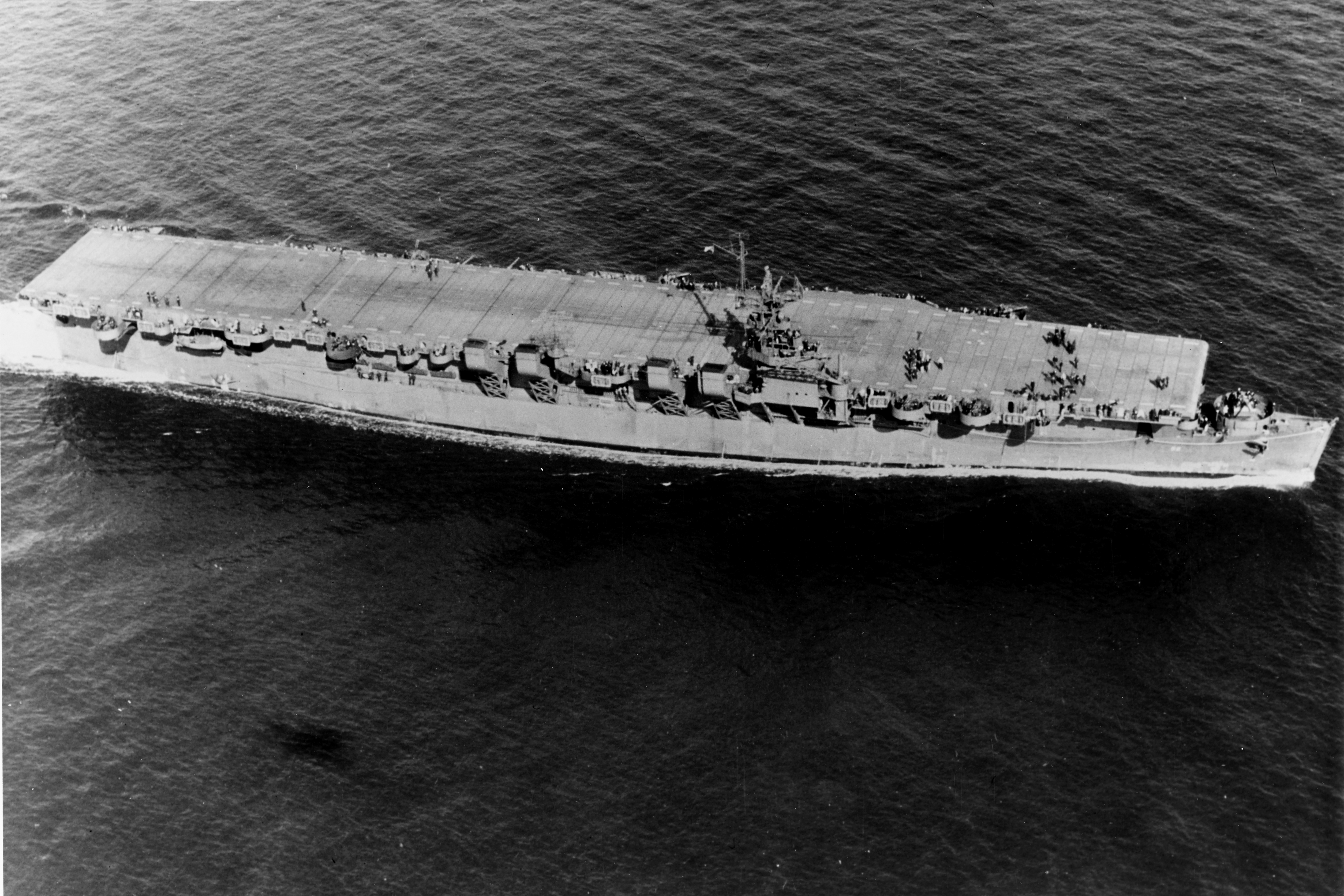 The U.S. Navy light aircraft carrier USS Independence (CV-22) photographed soon after completion, circa early 1943, while she still carried a 127 mm/38 gun at the bow. Independence was redesignated CVL-22 on 15 July 1943.